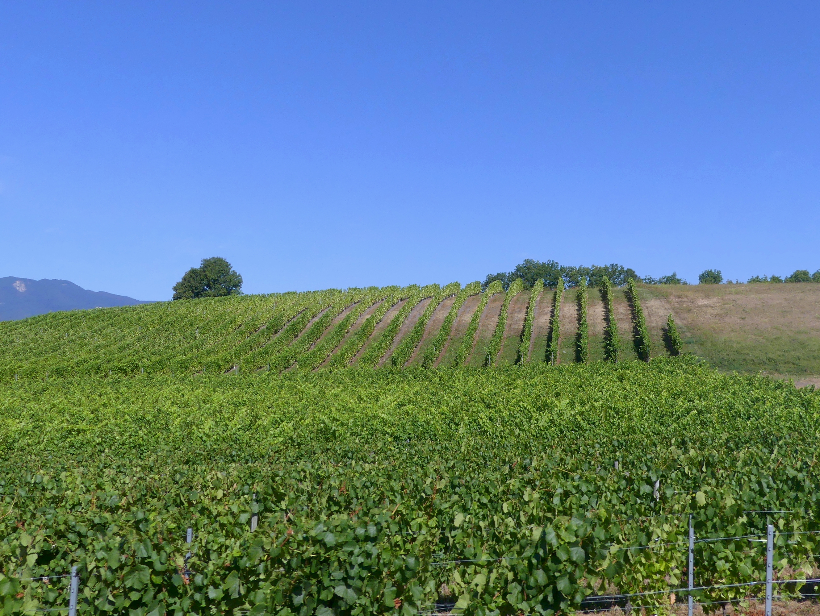 Sight of vineyards on the heights of Laissaud, in Savoie, France.